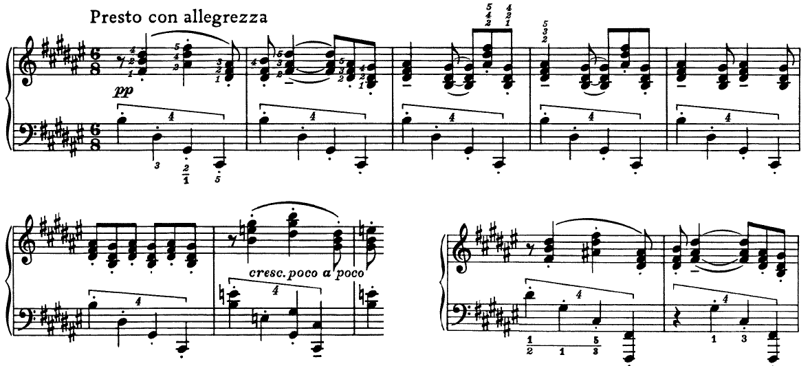 Bars 47-51 of Scriabin's 5th Sonata